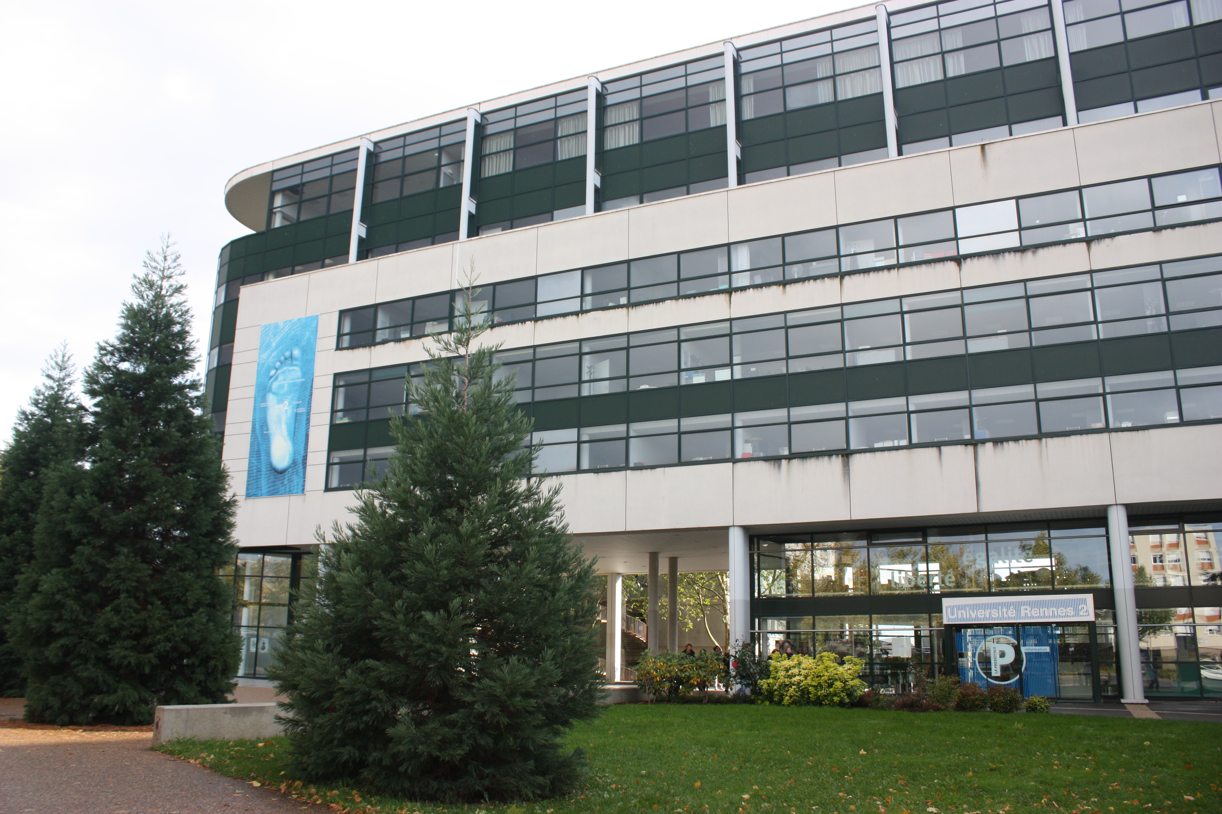 Présidence Building of University Rennes 2 Haute Bretagne